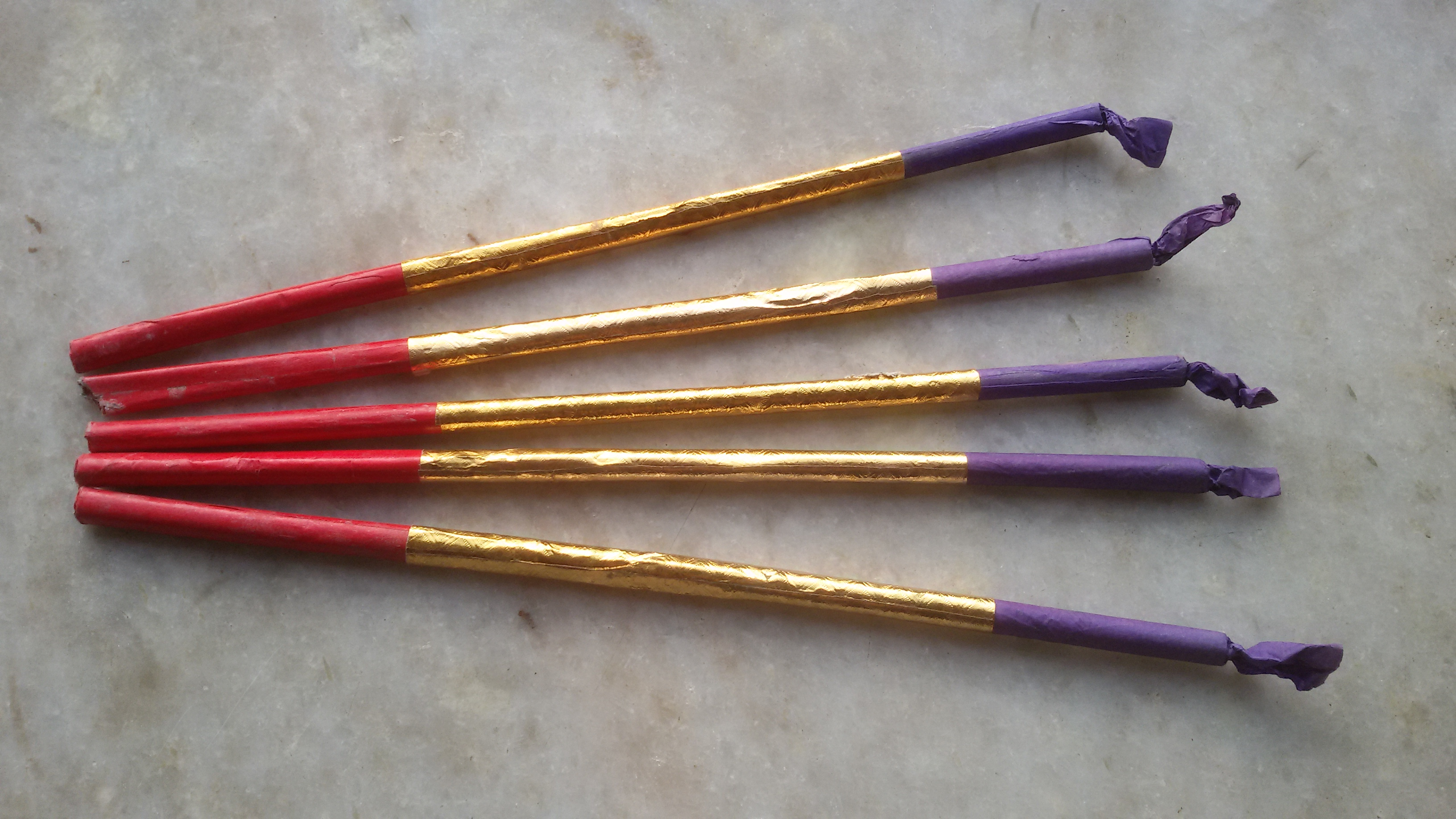 Photograph of rangmashal, a popular firework of West Bengal.